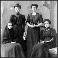 Four daughters of Metropolitan Seraphin (Chichagov): Vera, Natalya, Leonida and Yekaterina.